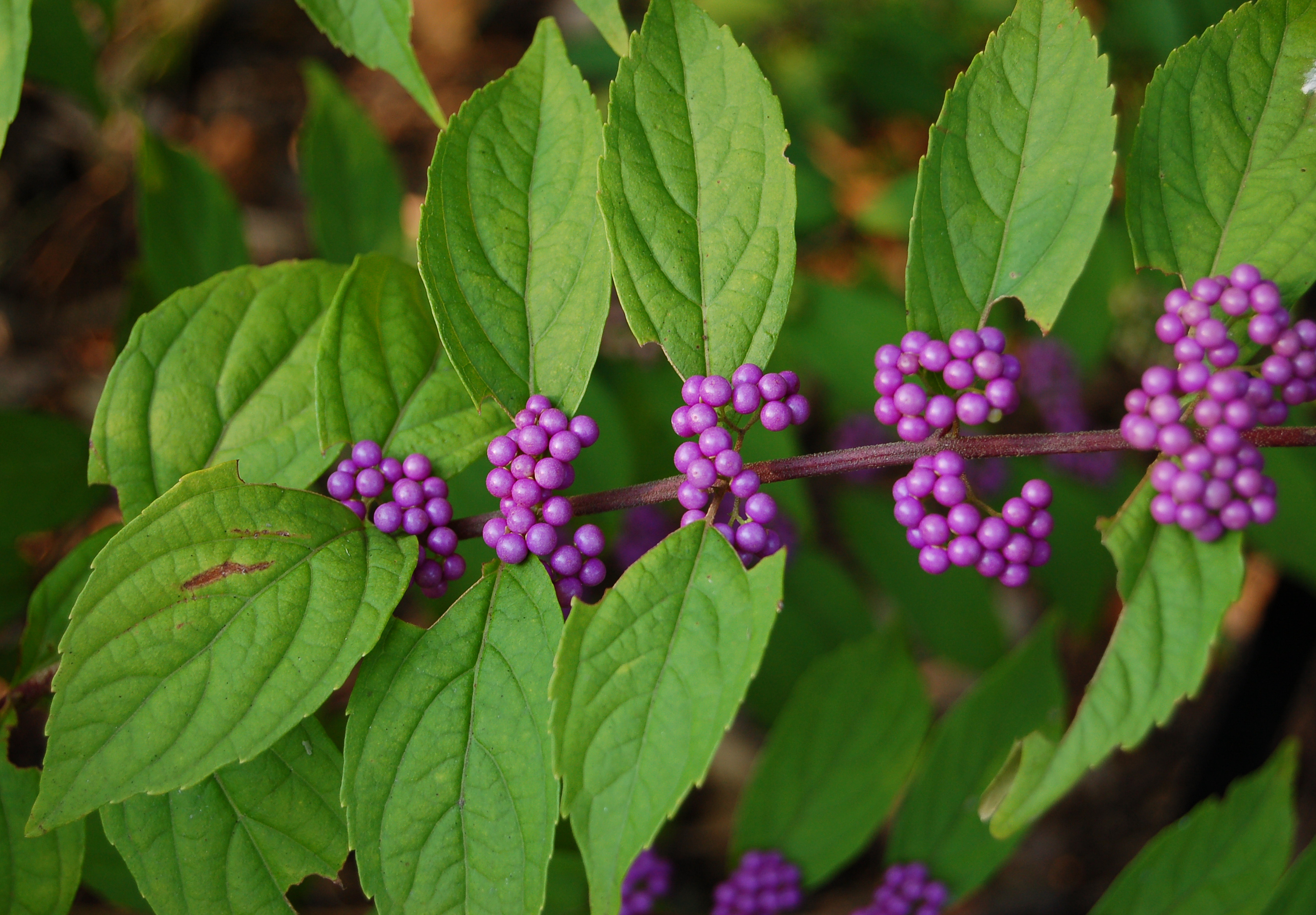 Photograph of the Purple Beautyberryen (Callicarpa dichotoma en 'Early Amethyst'). Photo taken at the Tyler Arboretum where it was identified.